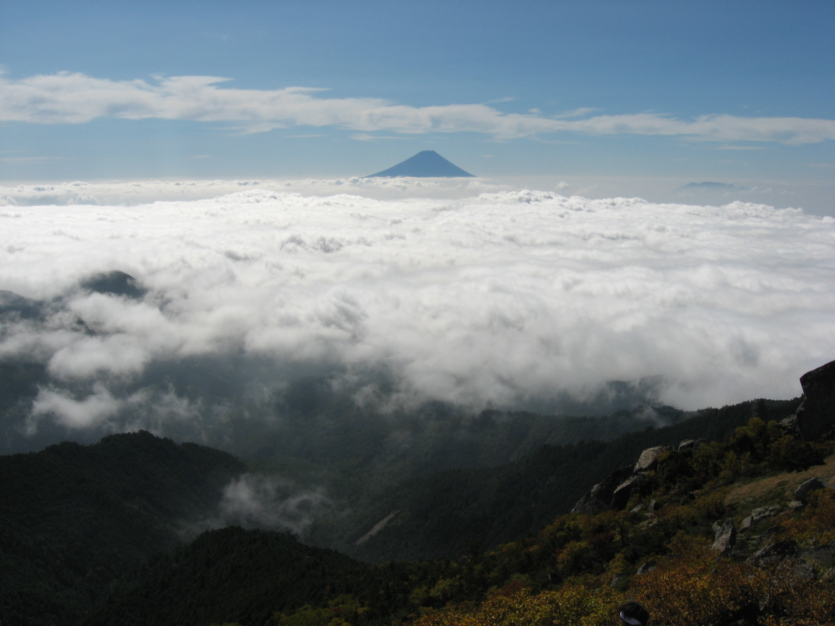 Mt.Fuji as seen from Mt.Kimpu, Mts.Okuchichibu, Japan.